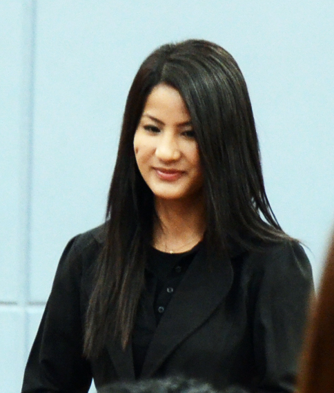 Sipora Gurung attending Nepalese Sipora Volleyball Cup 2013 in Sydney, Australia